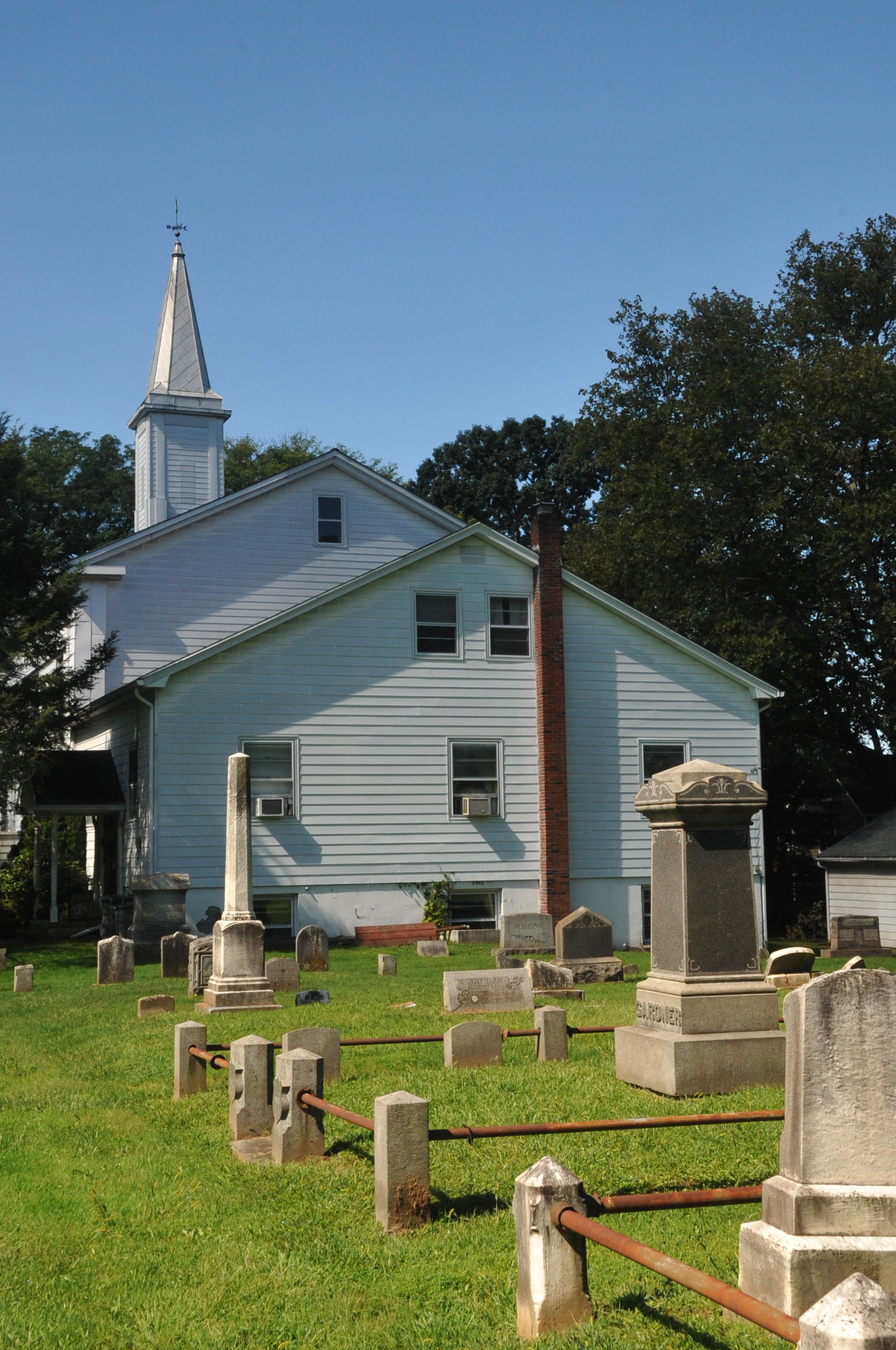 VIEW FROM THE GRAVEYARD